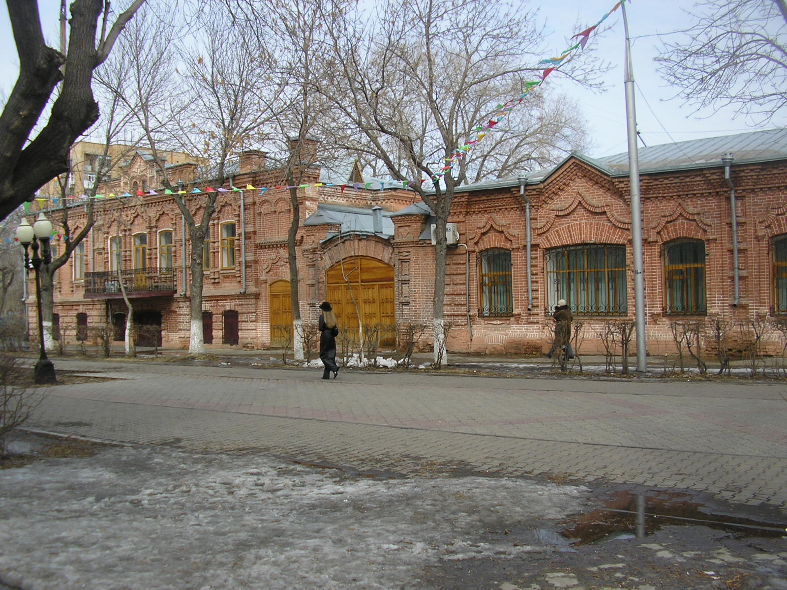 Petropawlowsk, museum